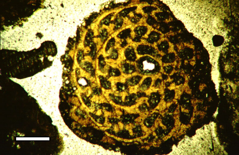 Thin section in plane-polarized light of microscopic fragment of peneroplid foraminiferan, from Holocene lagoonal sediment of Rice Bay, San Salvador Island, Bahamas. Scale bar 100 micrometres. From: Petrographic Analysis and Depositional History of an Open, Carbonate Lagoon: Rice Bay, San Salvador, Bahamas, 2000, James L. Stuby, masters thesis, Wright State University, Dayton, Ohio. Figure A3-2 from Appendix 3: Photomicrographs of Carbonate Grains in Rice Bay